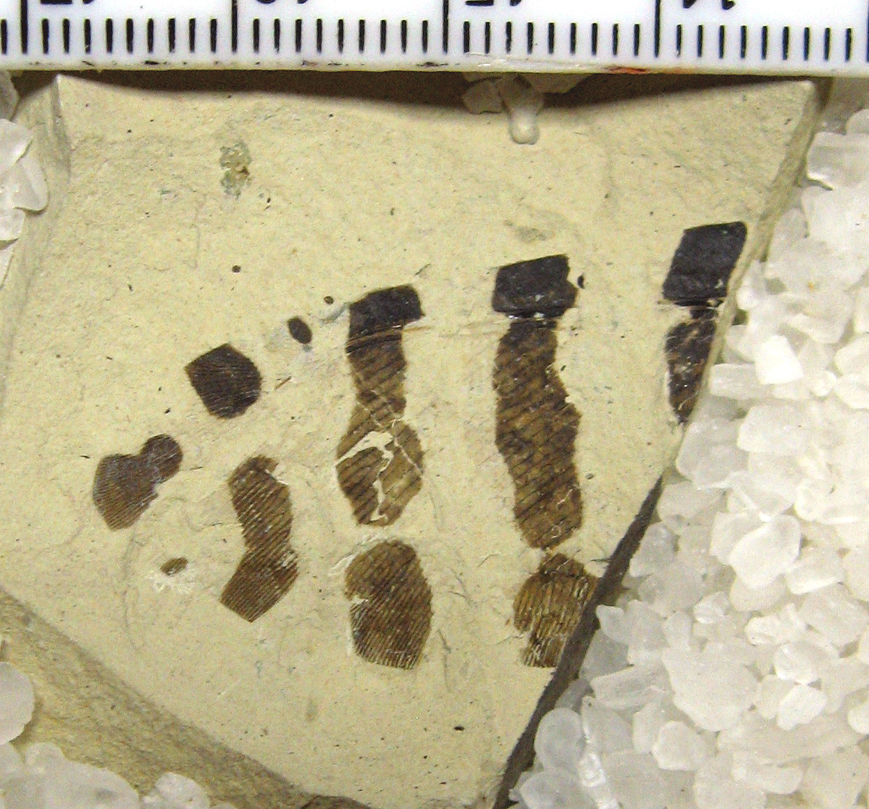 Palaeopsychops marringerae Holotype. A 3.5cm wing, with extremely well defined color-patterning as vertical light and dark banding. "Both hill" Klondike Mountain Formation, Republic, Ferry County, Washington, USA, Eocene, Ypresian, (~49.5 myo). Stonerose Interpretive Center Collection #SR 97-08-05